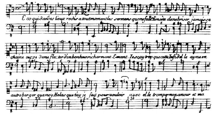 beginning of Montailly's air "Eco qui dans ces lieux", 1690.